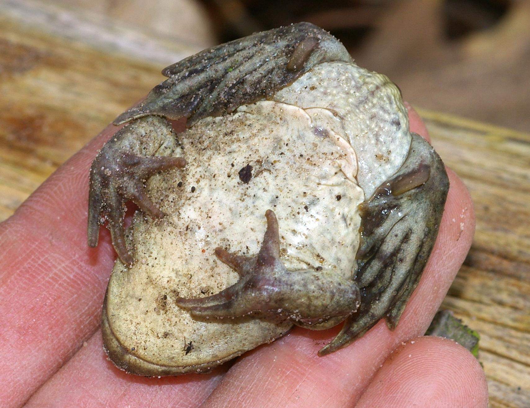 The Common Spadefoot Toad, Pelobates fuscus; here a view to the ventral side of a male specimen. Notice the brown "spades" at the first toe of each backfoot.